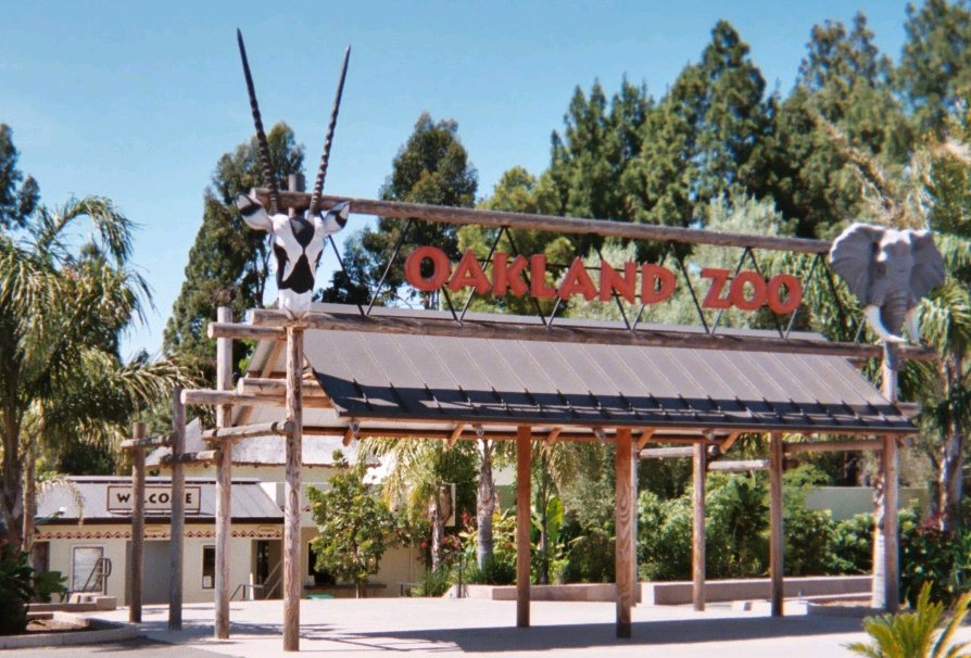 Entrance of the Oakland Zoo (2004)